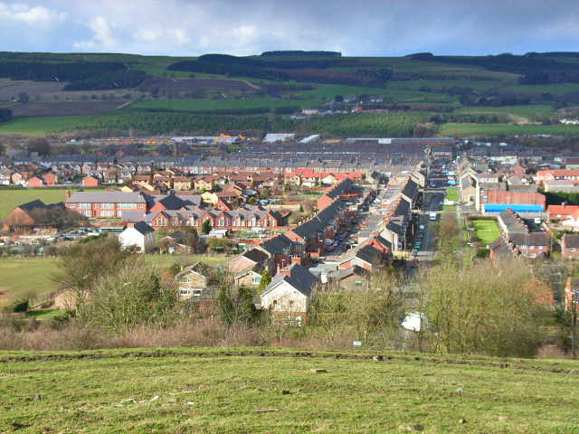 Langley Park. Viewed from Hill Top, looking north